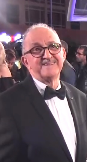 Mohamed El Jem